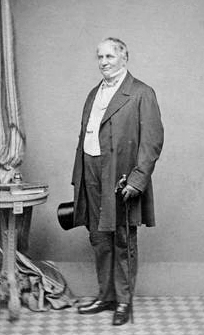 George Hussey Packe DL, JP, MP, High Sheriff of Lincolnshire, officer at the Battle of Waterloo, and instrumental in the establishment of the Great Northern Railway